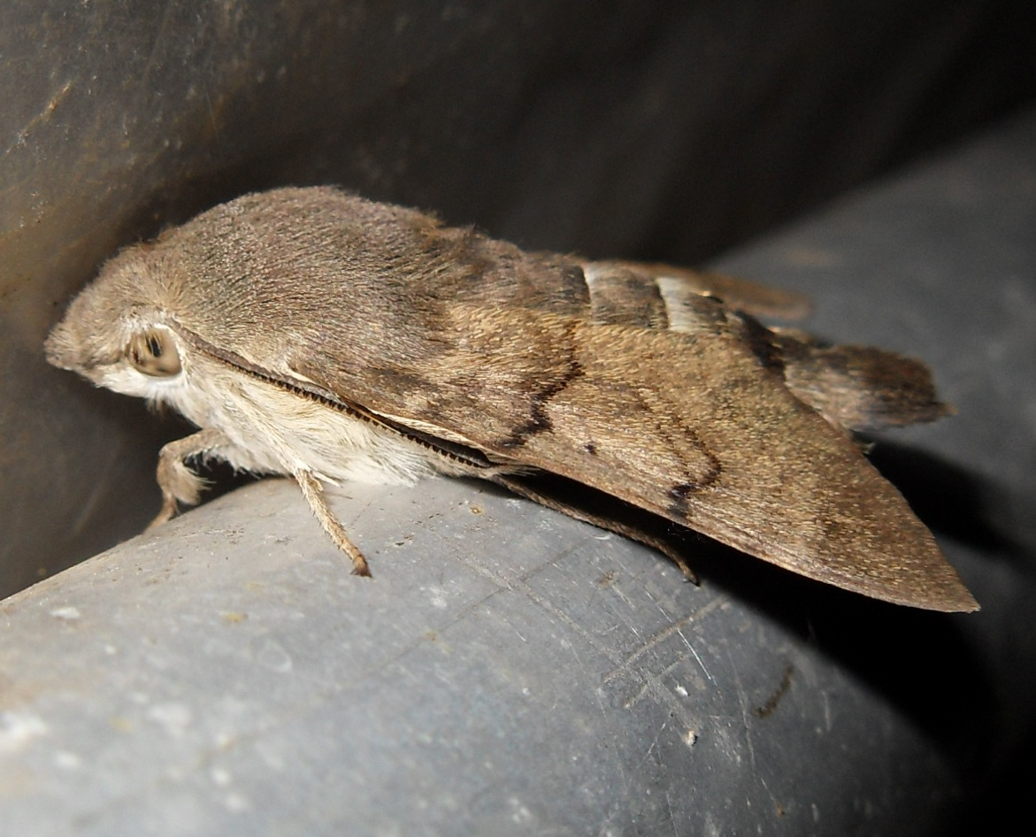 Macroglossum stellatarum